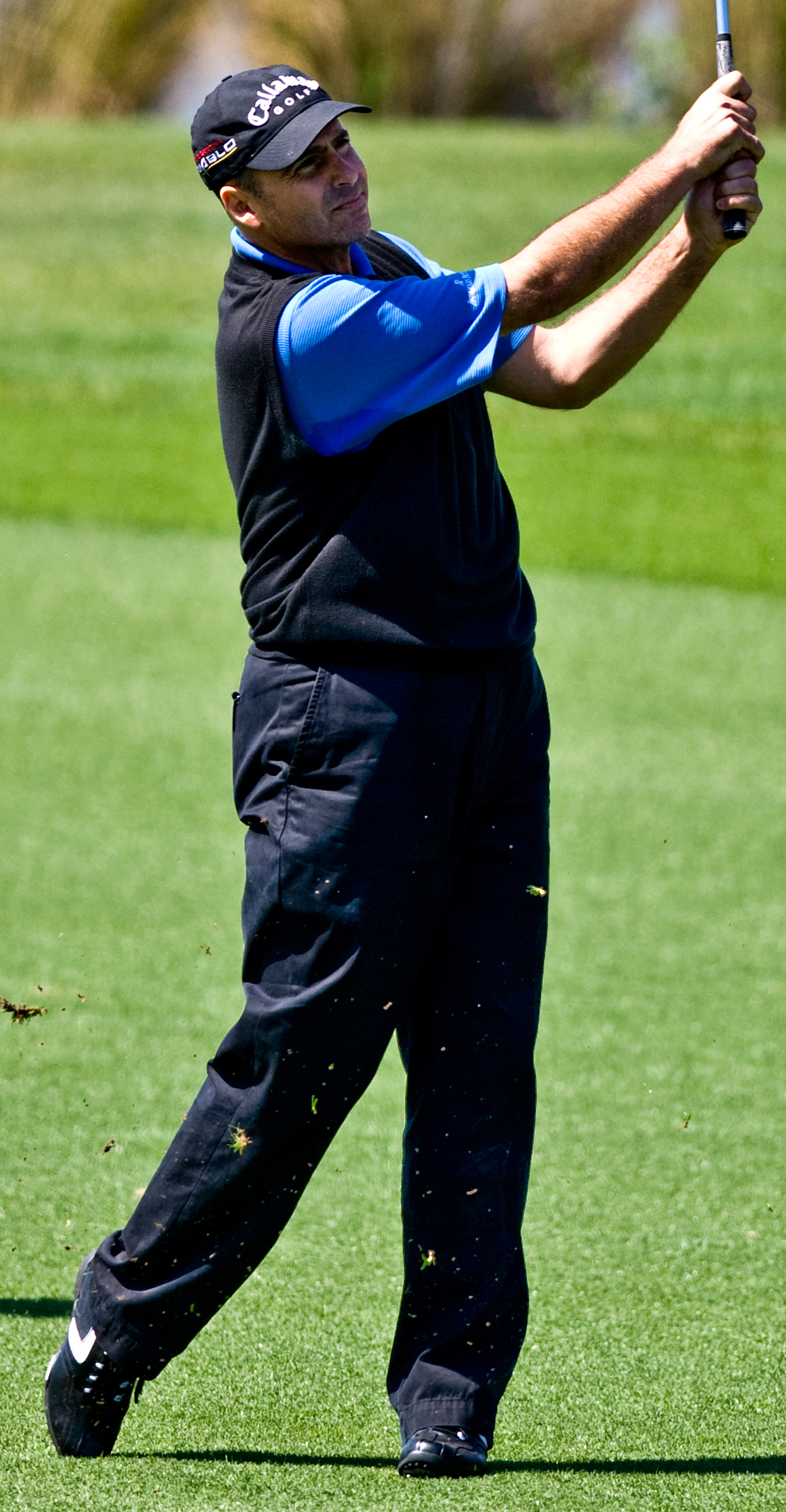 Rocco Mediate at the 2009 Honda Classic.